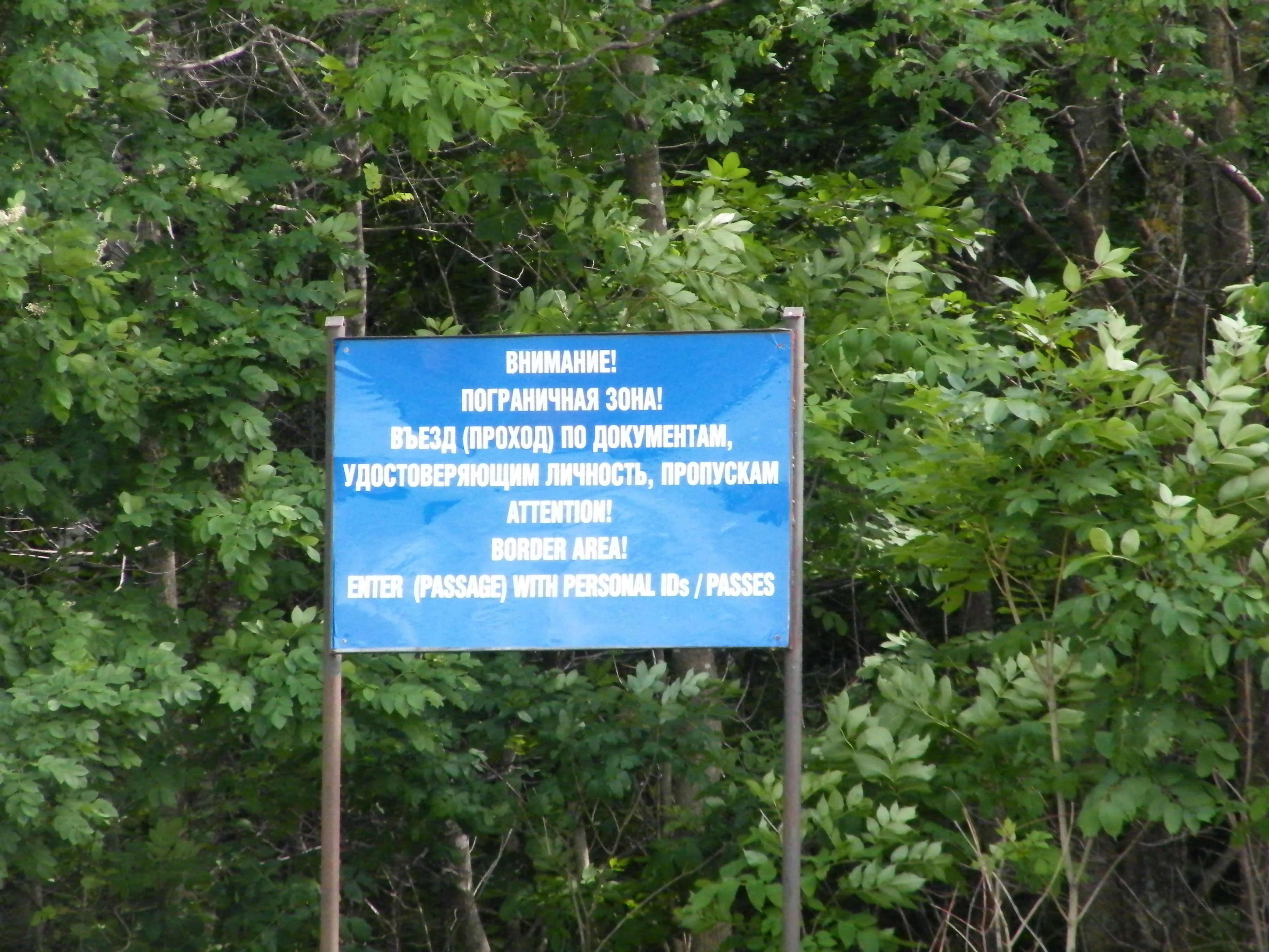 Amurskaya protoka